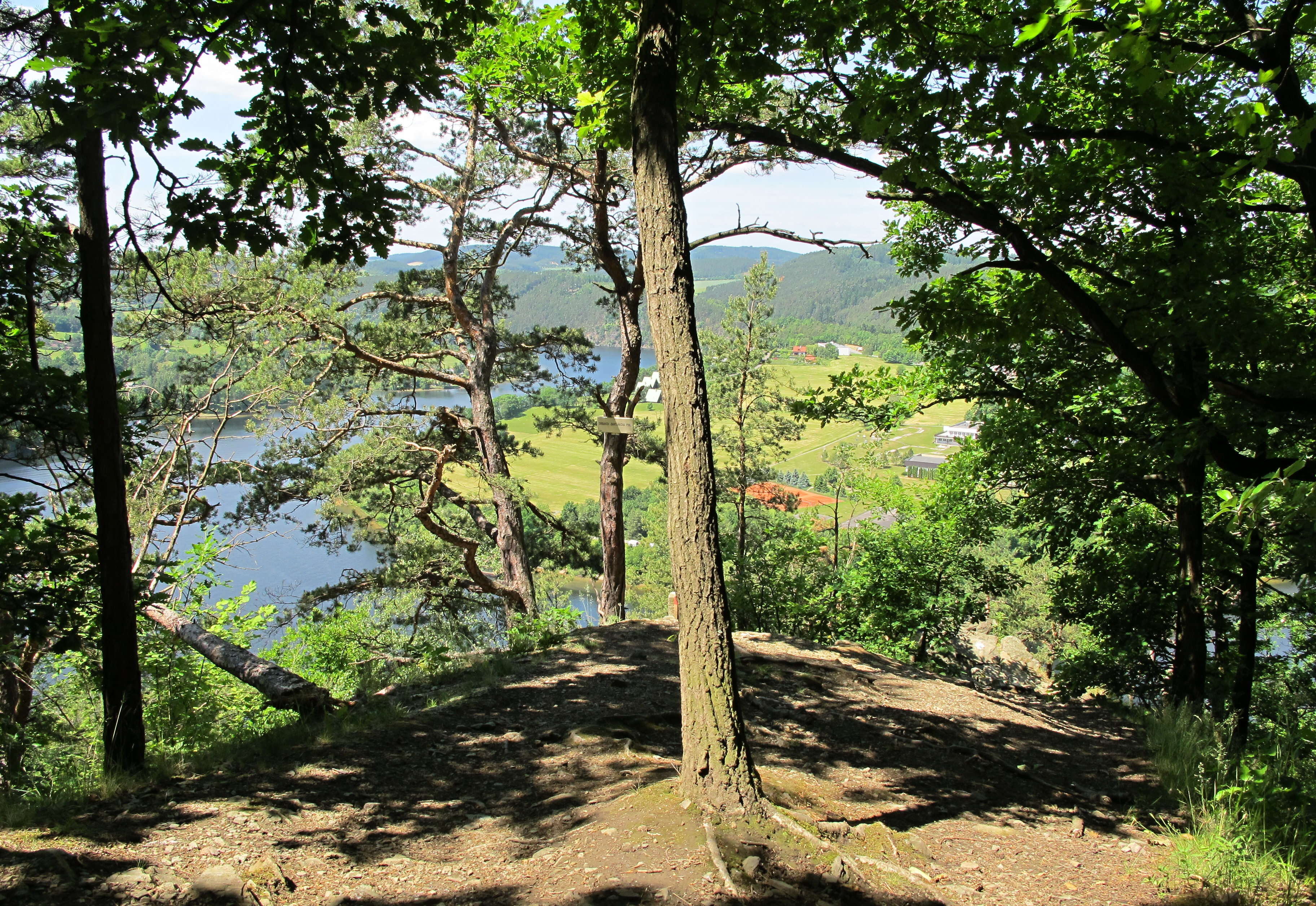 National nature reserve Drbákov-Albertovy skály near Nalžovické Podhájí in Příbram District